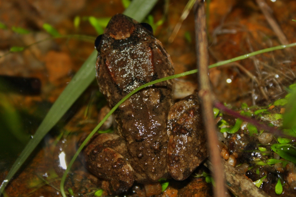 Taken in Lion Rock Country Park.